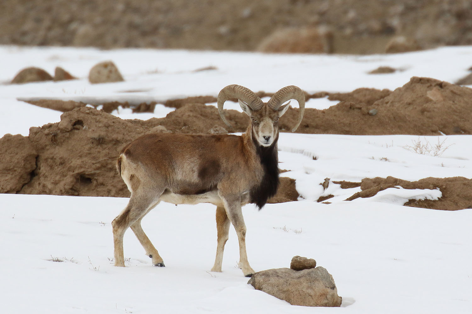 Urial (Ovis vignei) in Ladakh, India